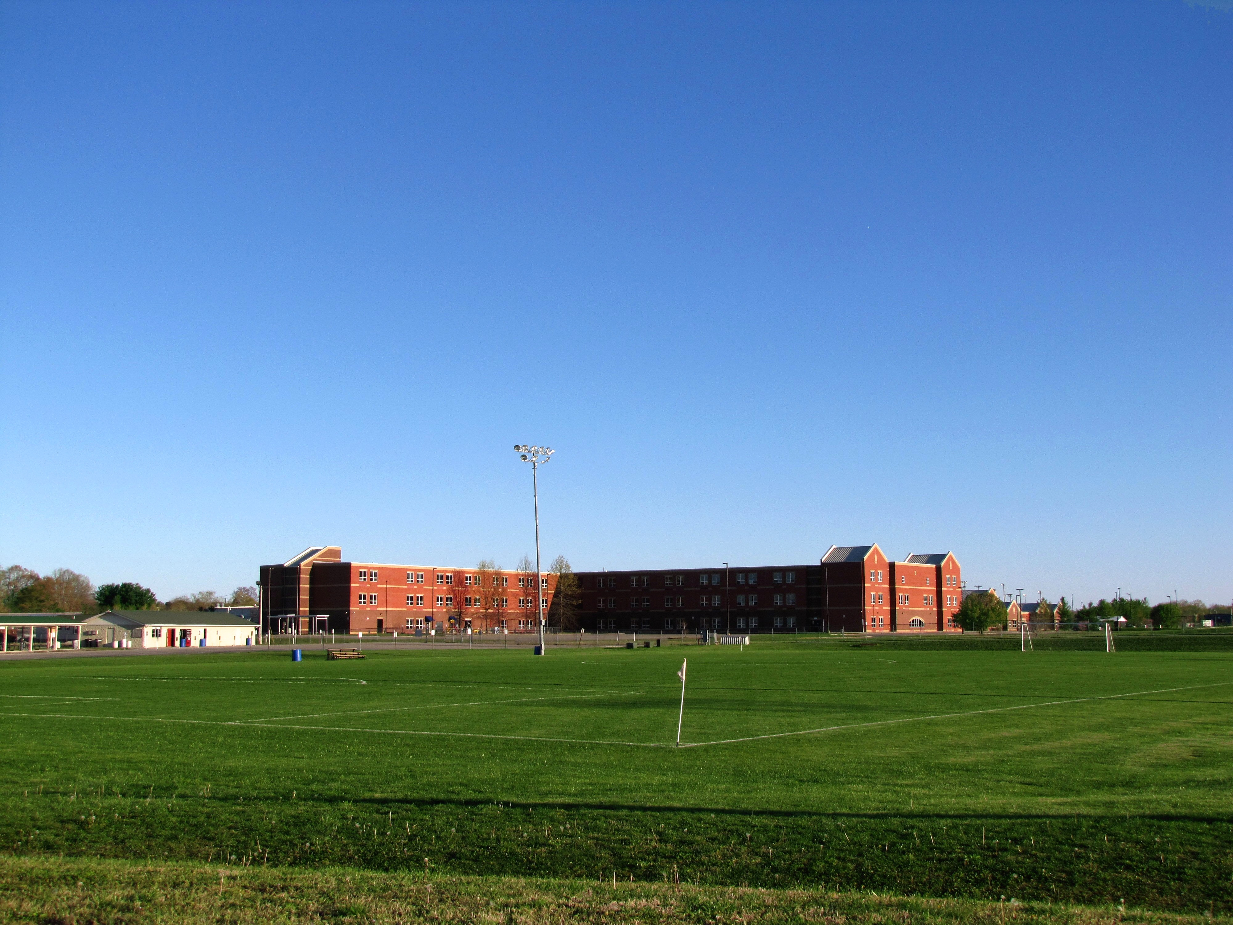 Cookeville High School in Cookeville, Tennessee, United States.